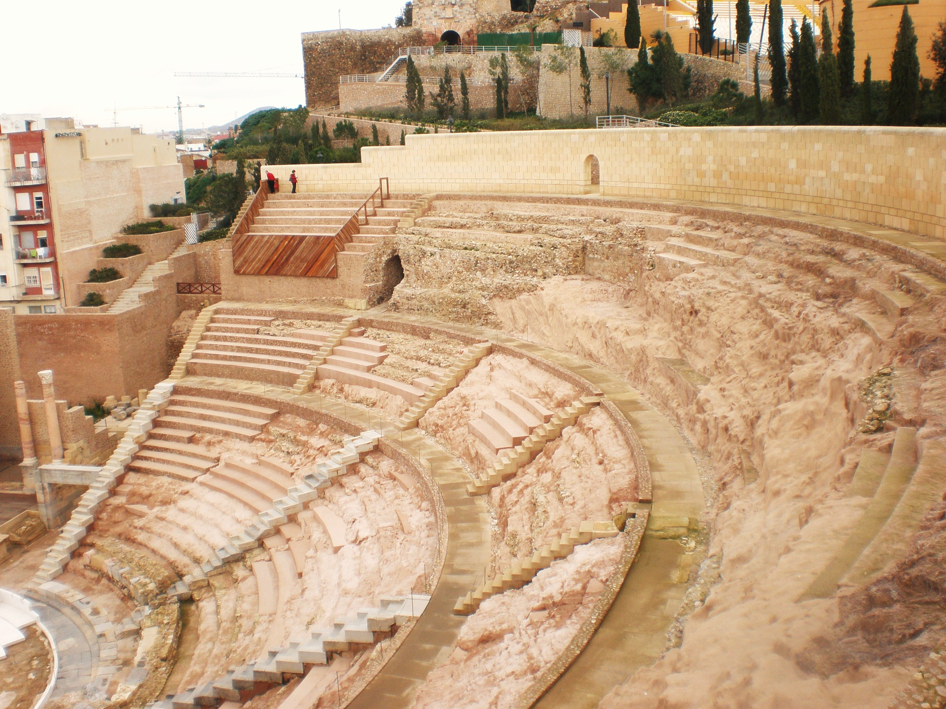 Roman Theatre, Cartagena